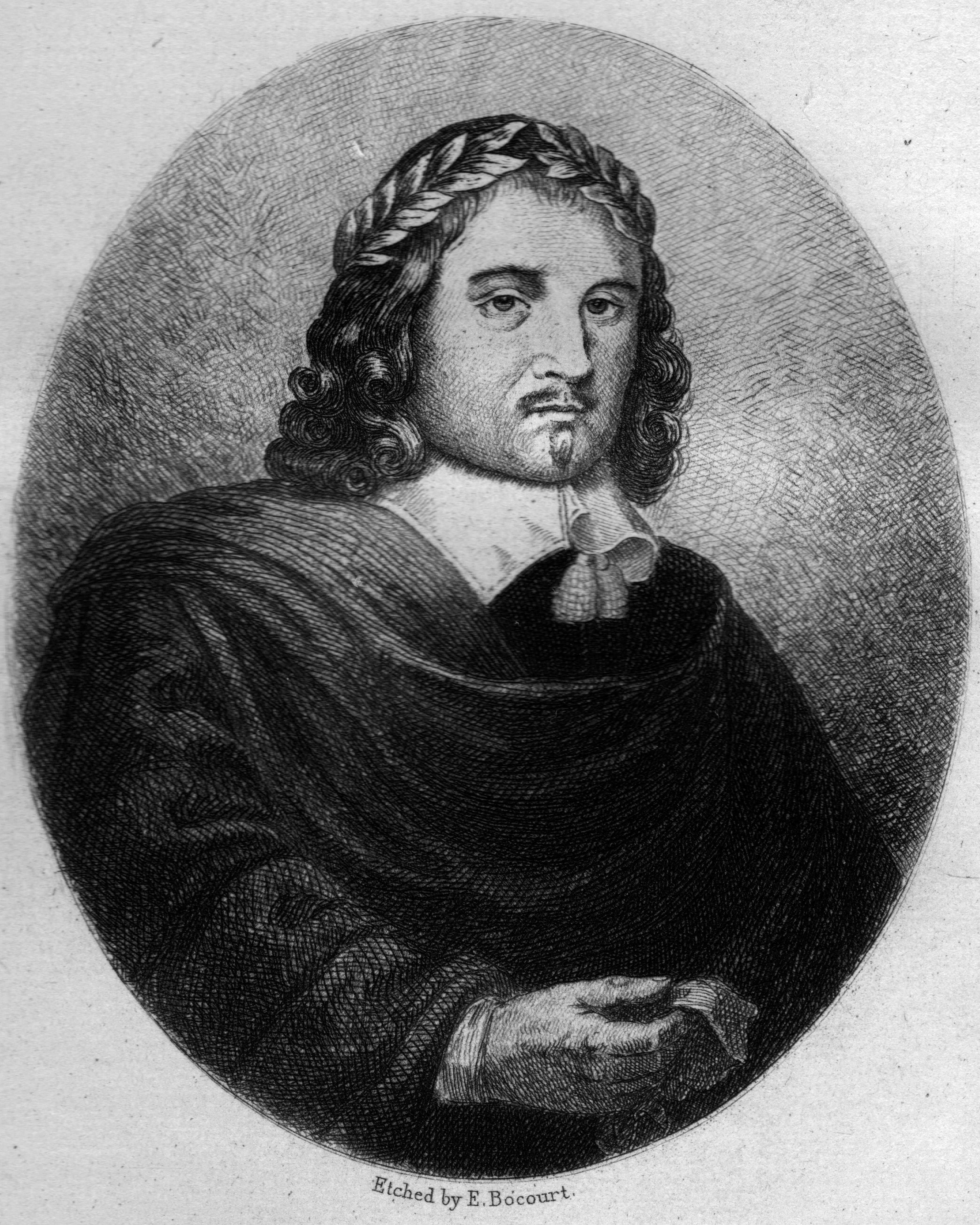 Portrait of Thomas Middleton from his selected plays